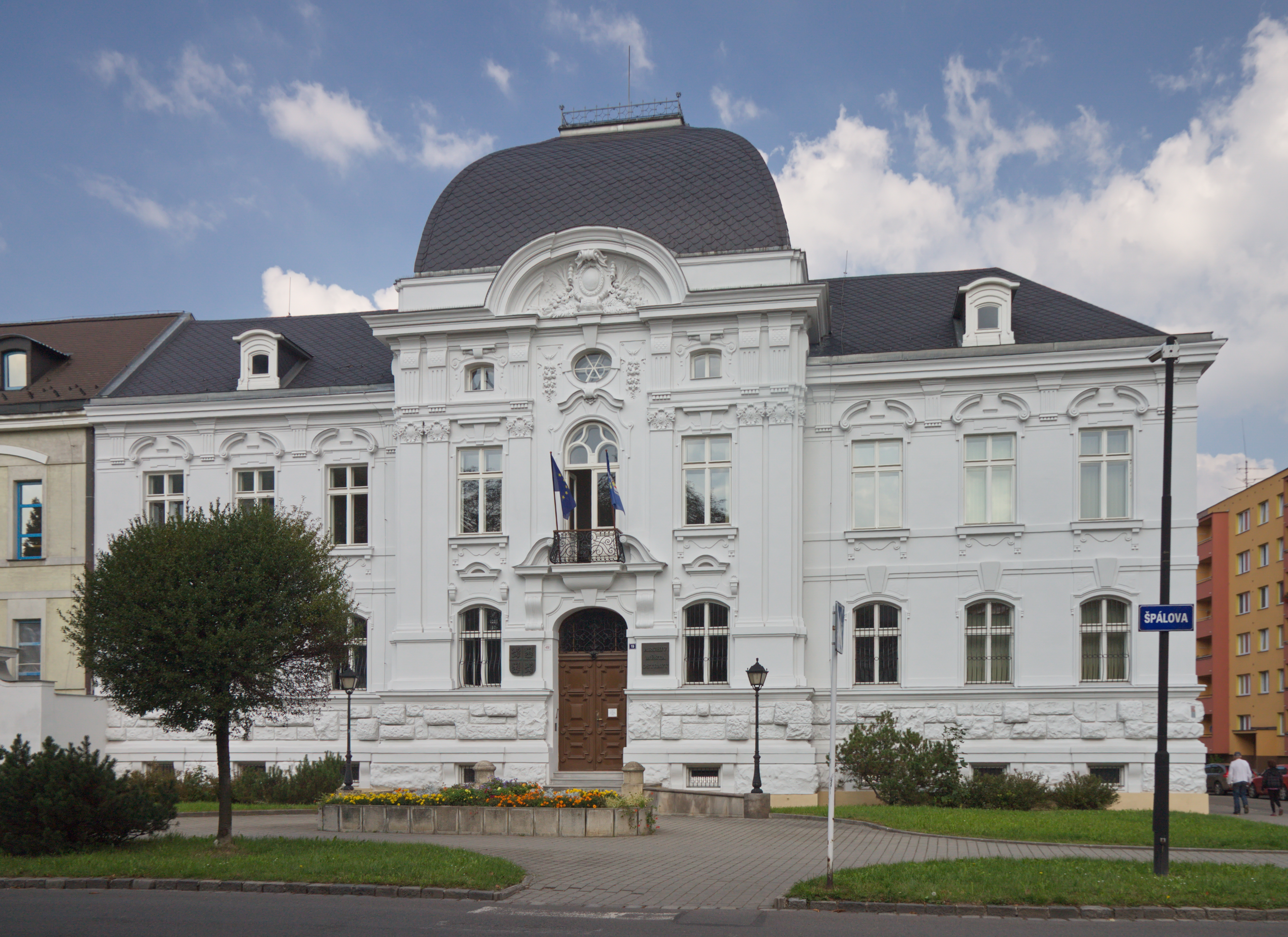 Archive of Ostrava, Přívoz, 23 Špálova street, Ostrava. Moravian-Silesian Region, Czech Republic.